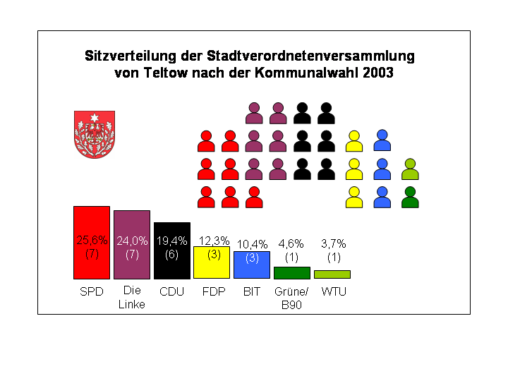 local elections Teltow Germany 2003 / Kommunalwahl Teltow 2003